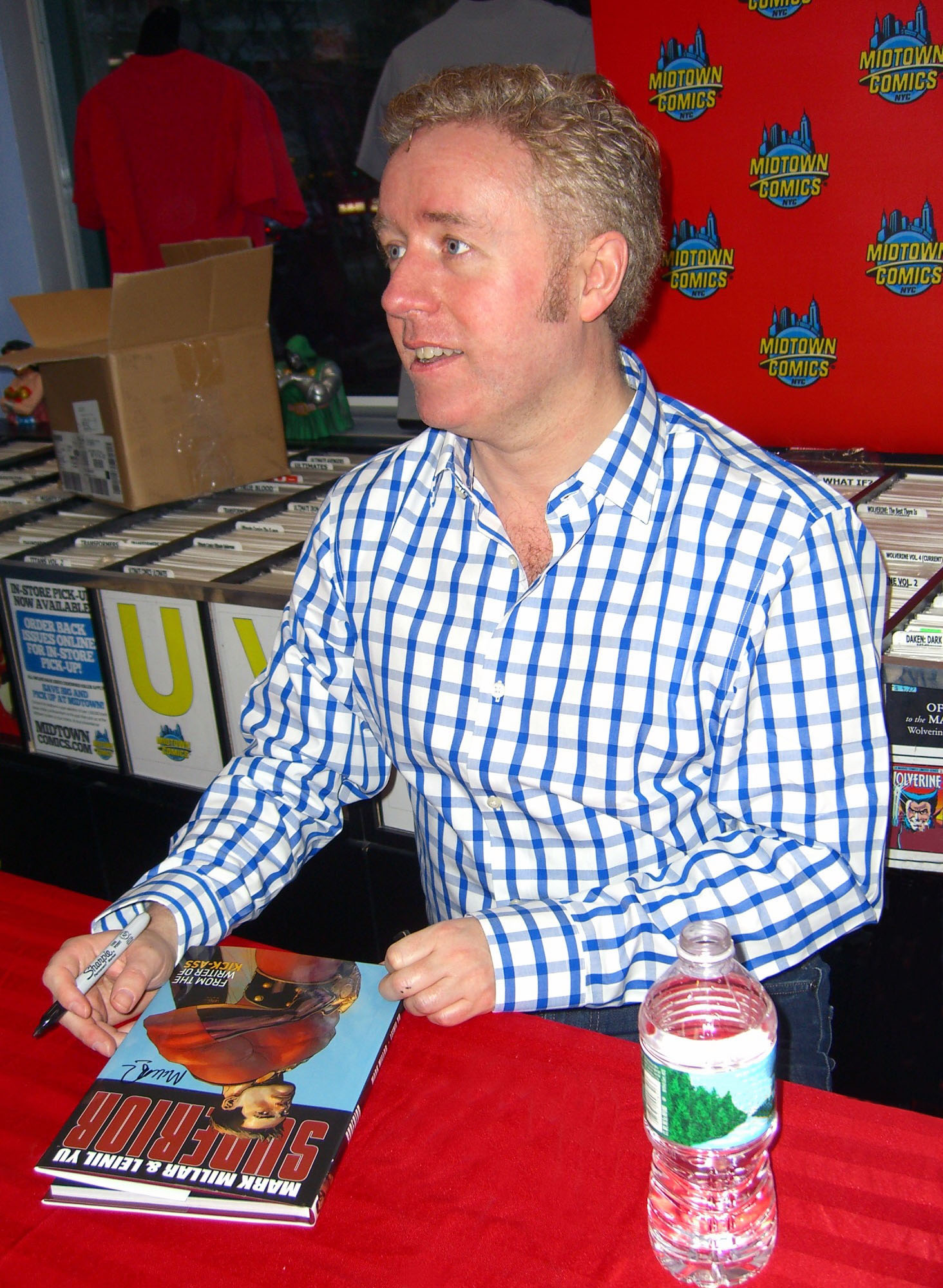 Scottish comics writer Mark Millar at an April 25, 2013 signing at Midtown Comics in Manhattan for his miniseries, Jupiter's Legacy, which debuted the day prior. In the photo, Millar is signing a copy of one of his previous works, Superior. This photo was created by Luigi Novi. It is not in the public domain, and use of this file outside of the licensing terms is a copyright violation.